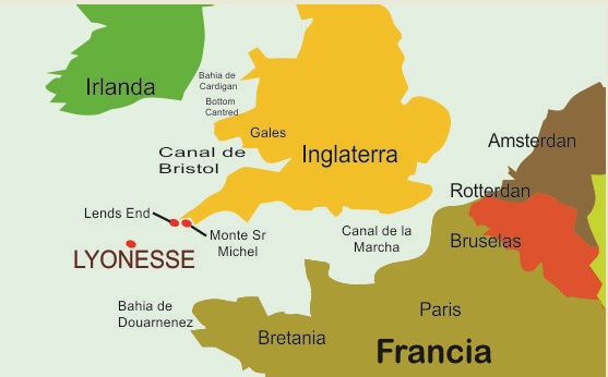 Ubicación de la perdida ciudad de Lyonesse